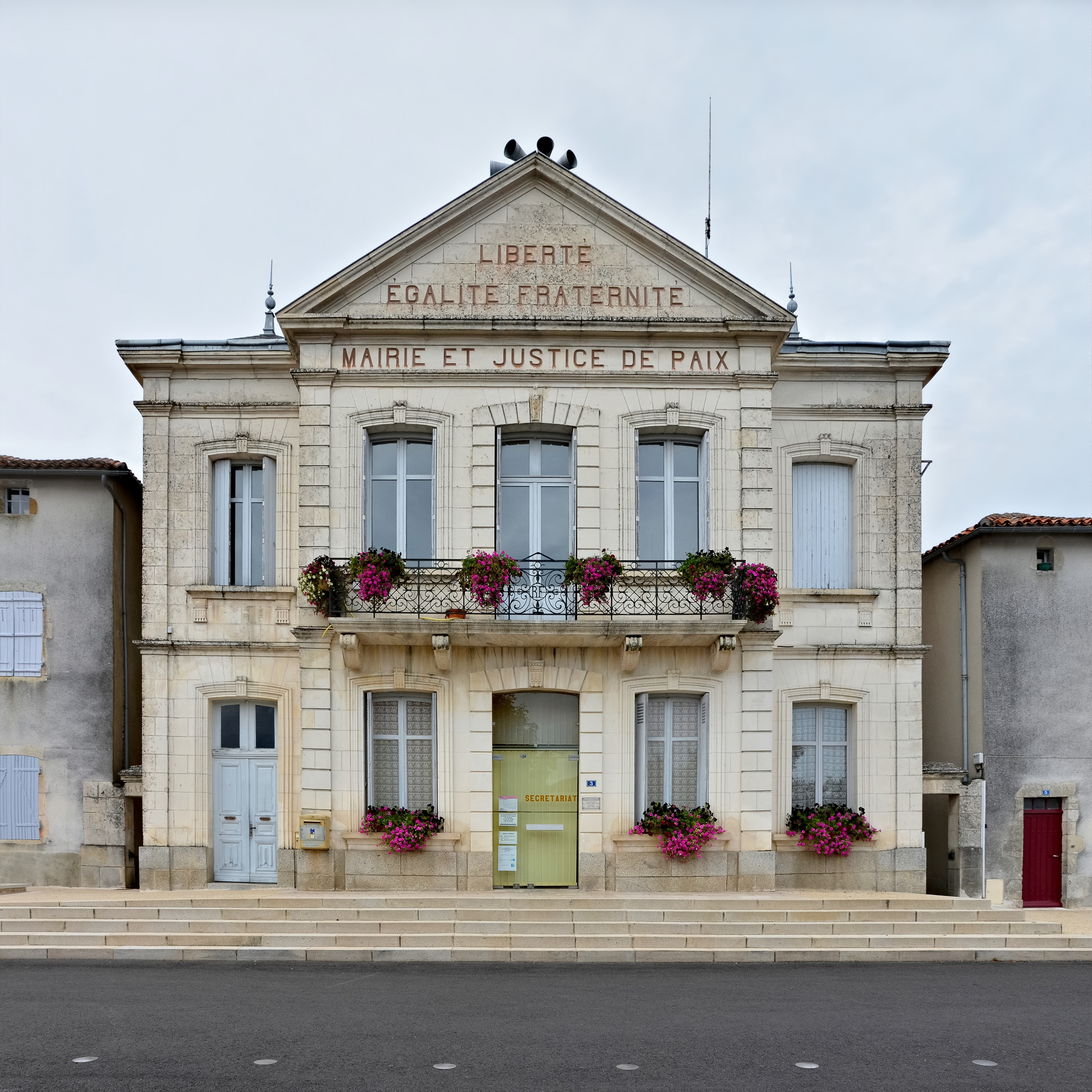 Facade of the town hall of Charroux, Vienne, France.